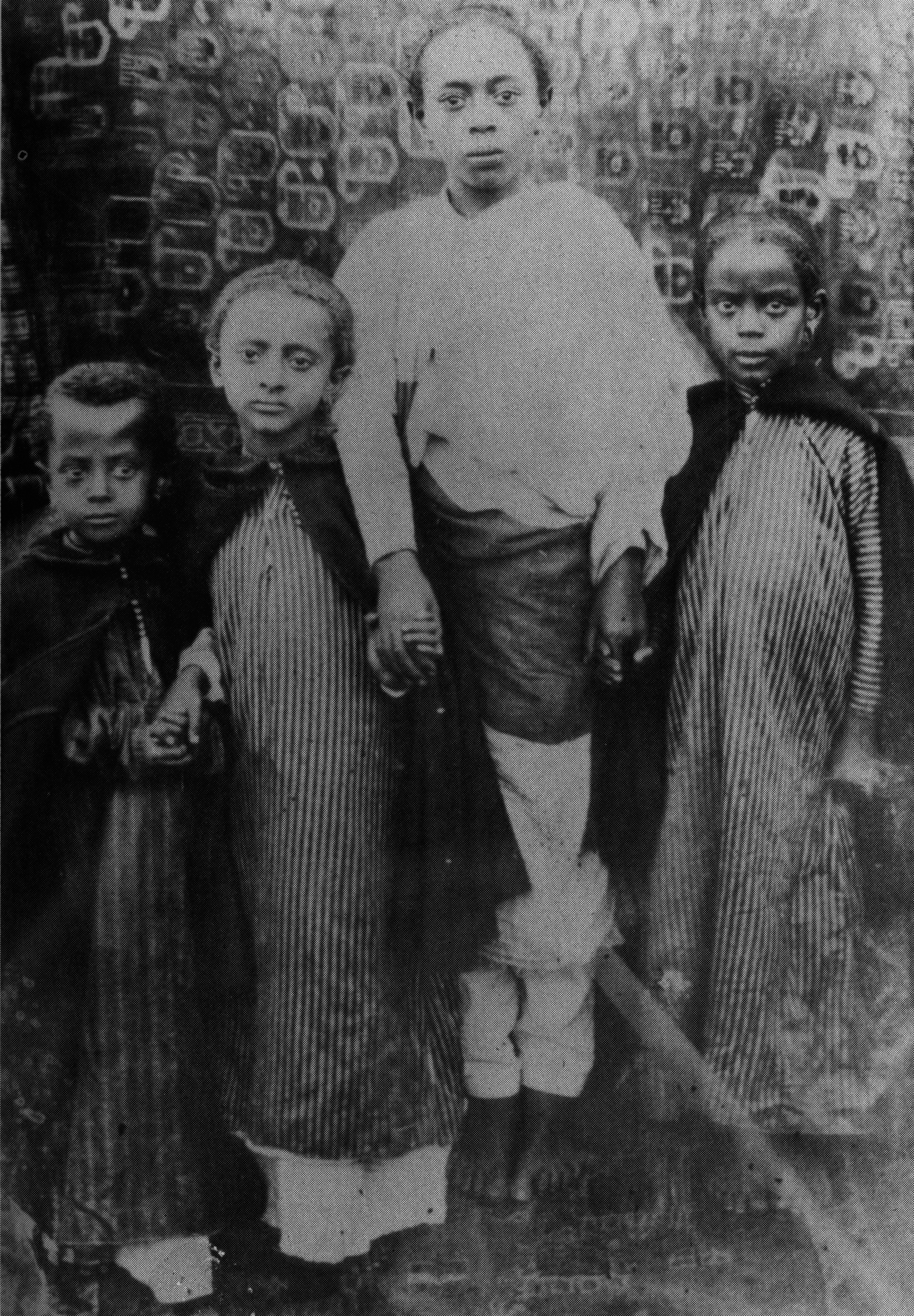 Left to right: Tafari Belew, Lij Tafari Makonnen, Beru (the children's care-taker), Imru Haile Selassie